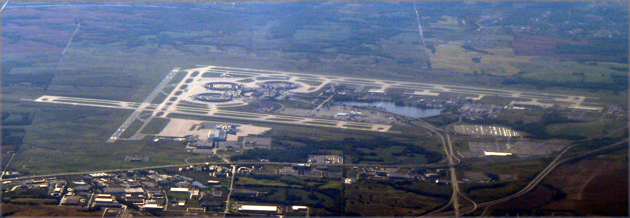 Kansas City International Airport from the east. Photo by poster in September 2007.